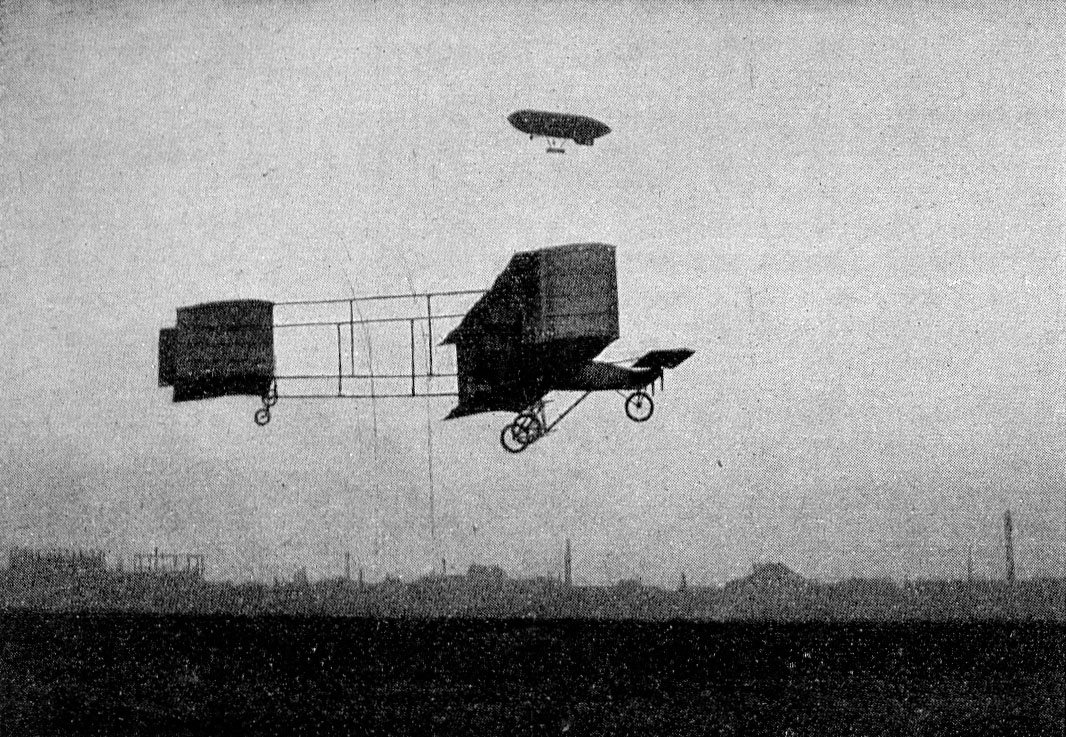 An airplane close to the ground at the "Internationale Luftschiffahrt-Ausstellung Frankfurt" 1909. A non-rigid airship appears in the background. This international airship event lasted 100 days and was the world's largest of this kind ever.